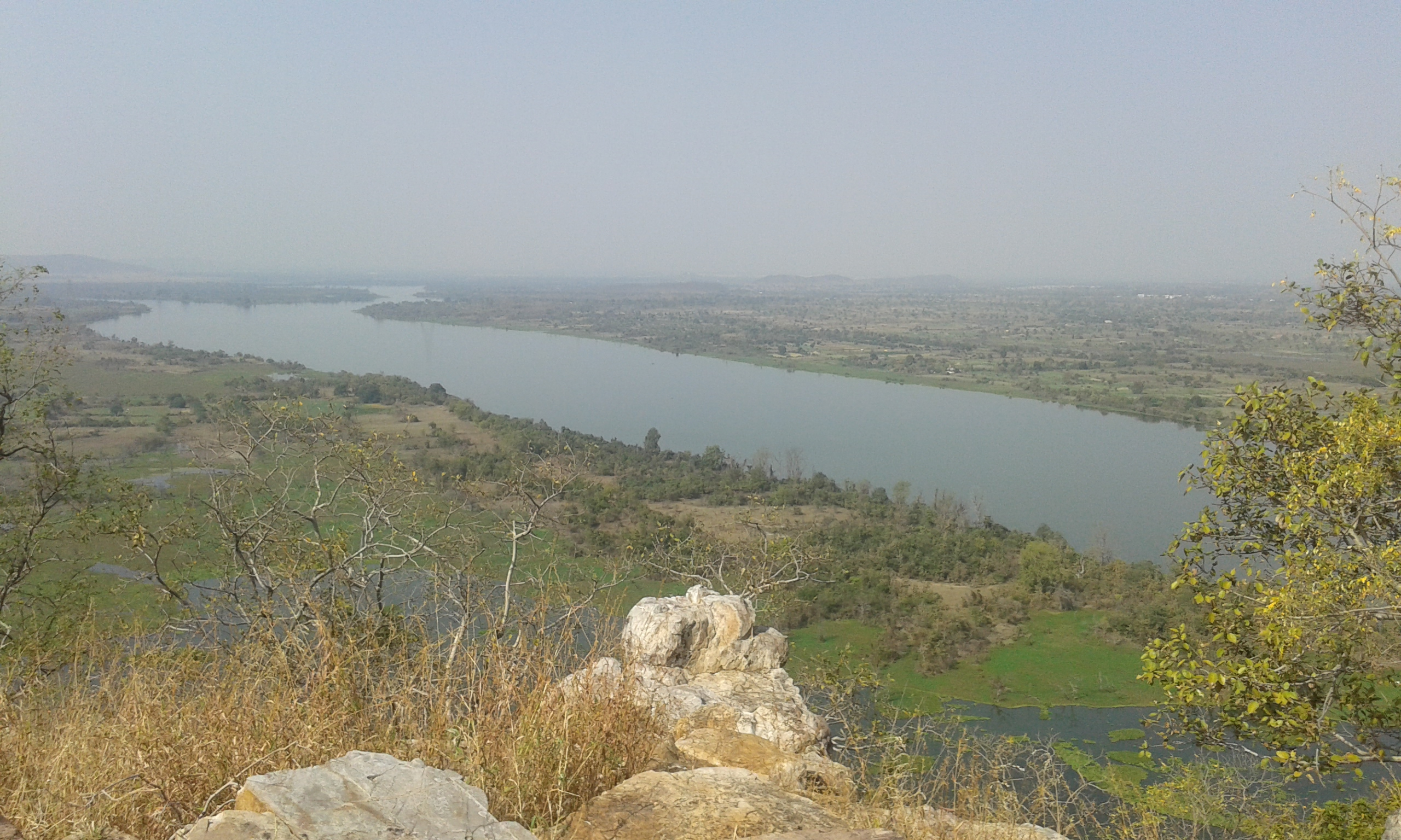 This pic shows vainganga river near bhandara Maharashtra. Gosikhurd dam is built on this river. Vainganga river is one of largest rivers in Vidarbha region of Maharashtra.